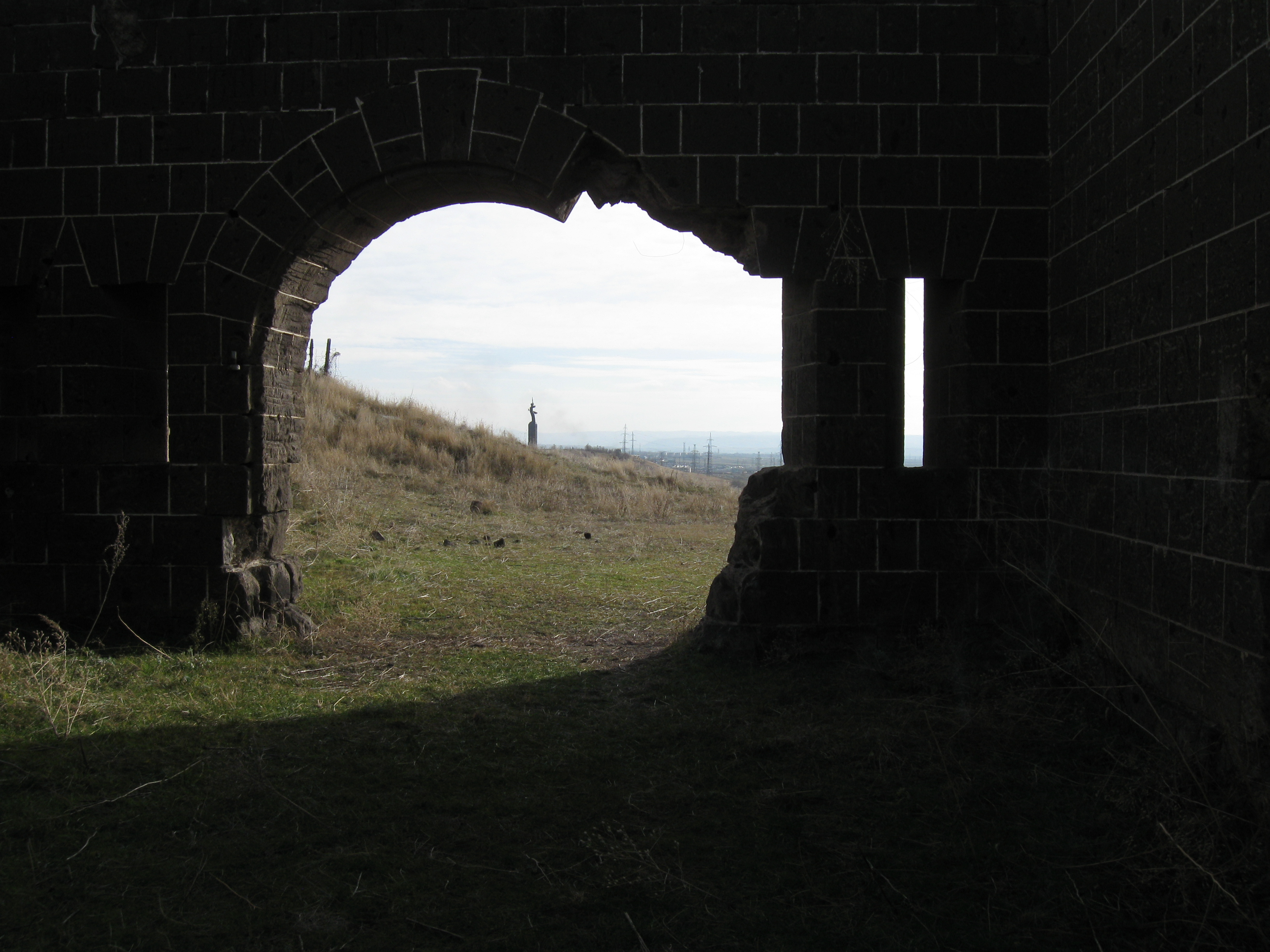 Alexandropol fortress